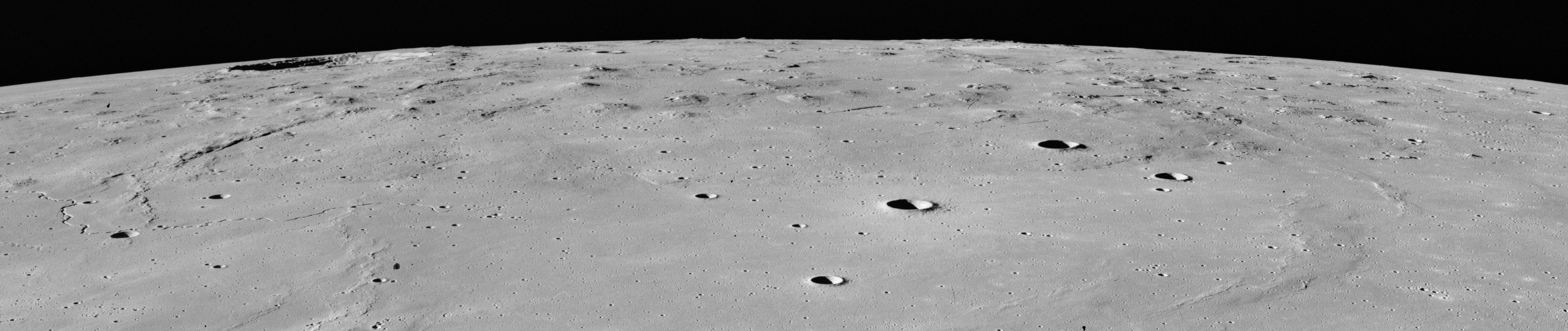 Oblique view facing south of the Marius Hills, with the crater Marius at left on the horizon, on the moon.